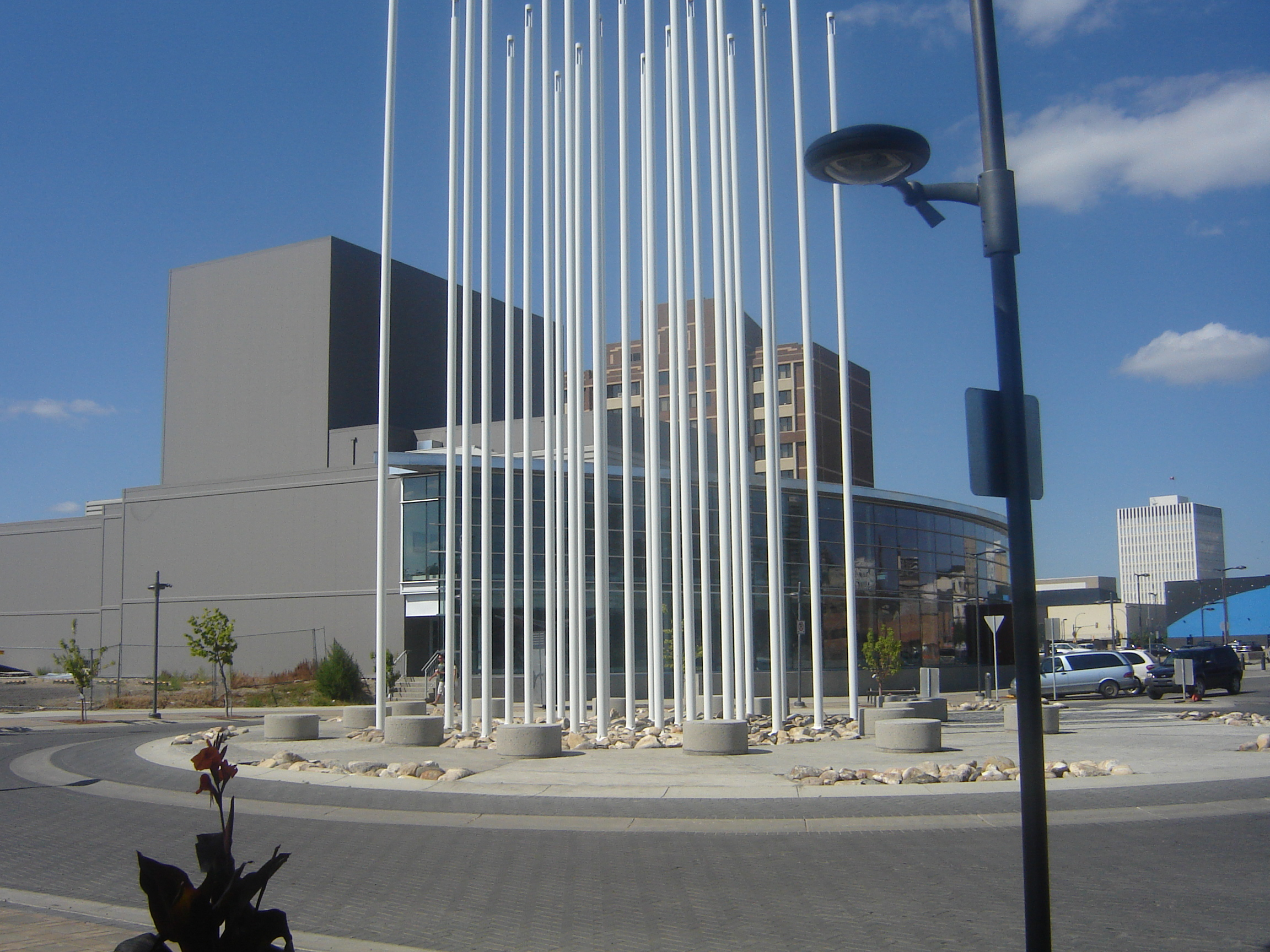 Prairie Wind Landmark in front of Persephone Theatre, and Galaxy Theatre at River Landing Central Business District, Saskatoon, Saskatchewan, Core Neighbourhoods SDA, Saskatoon